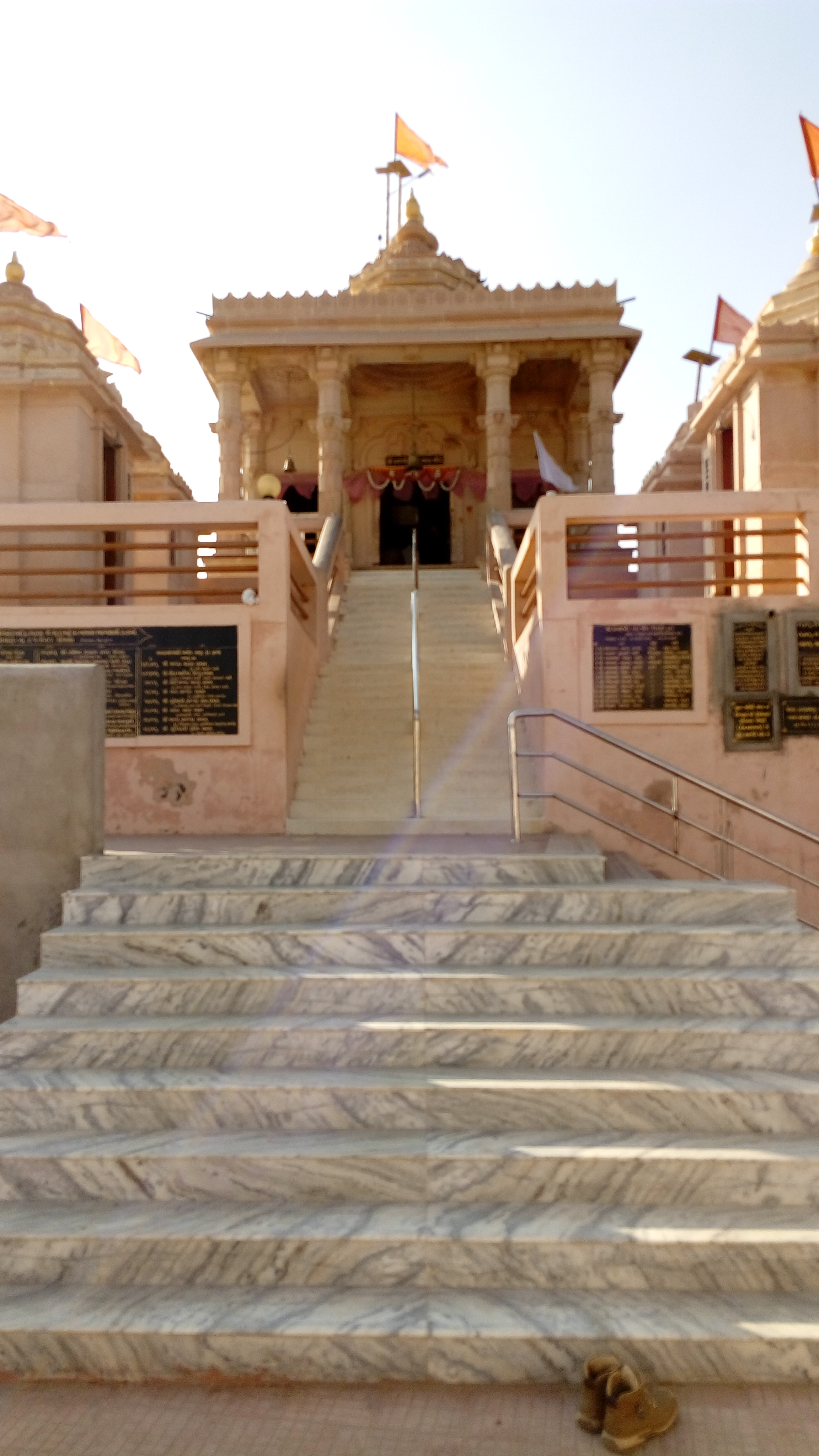 Raval Pir Dada Temple near Gundiyali Salaya Mandvi Kutch